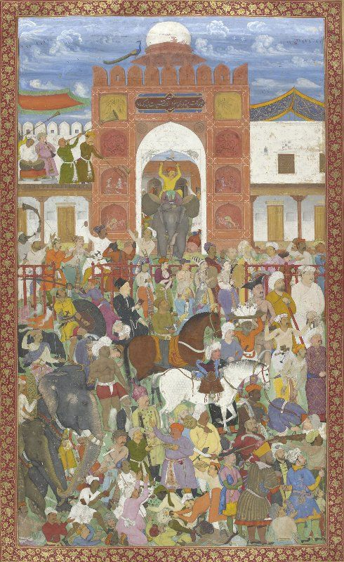 Celebrations at the accession of Jahangir, 1605 from the Jahangir-nama